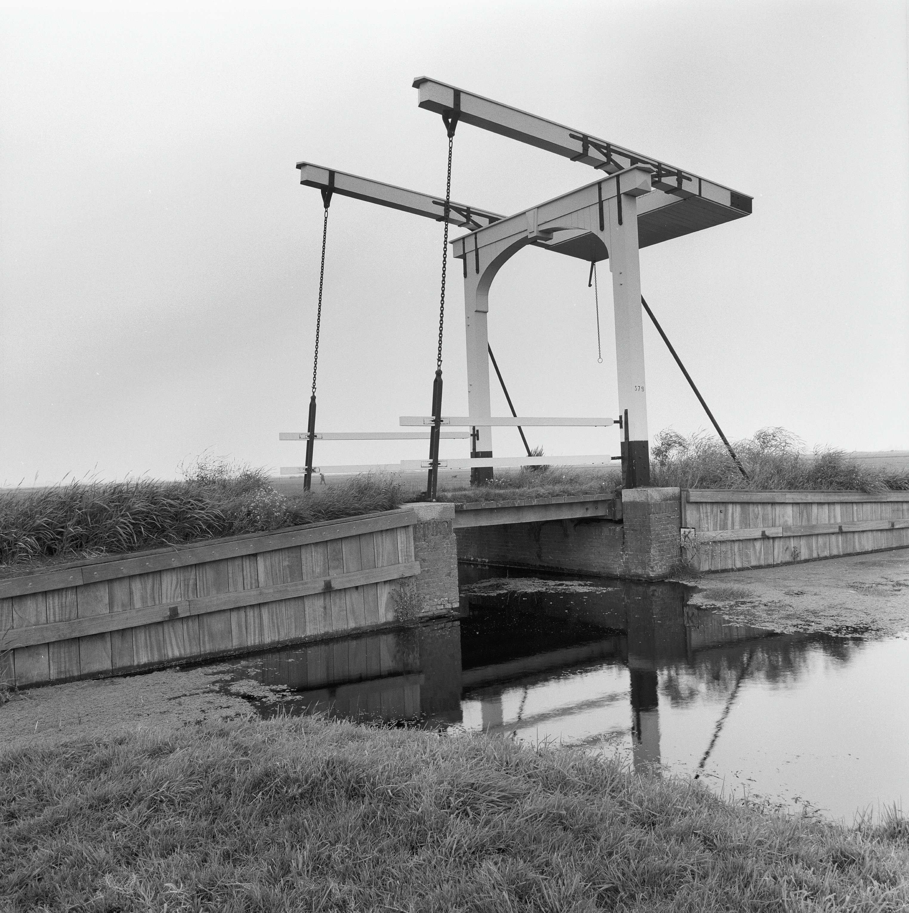 Bridge 379, "Wipbrug" in Liergouw, Ransdorp, Amsterdam, the Netherlands.